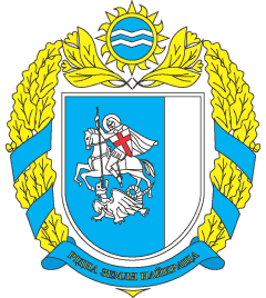 Svitlovodskyj raion, (Kirovohrad Oblast Ukraine), coat of arms